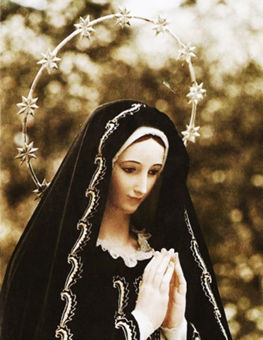 Prayer prayer-card of Our Lady of Umbe placed in the public domain by her Shrine in Umbe, Spain.